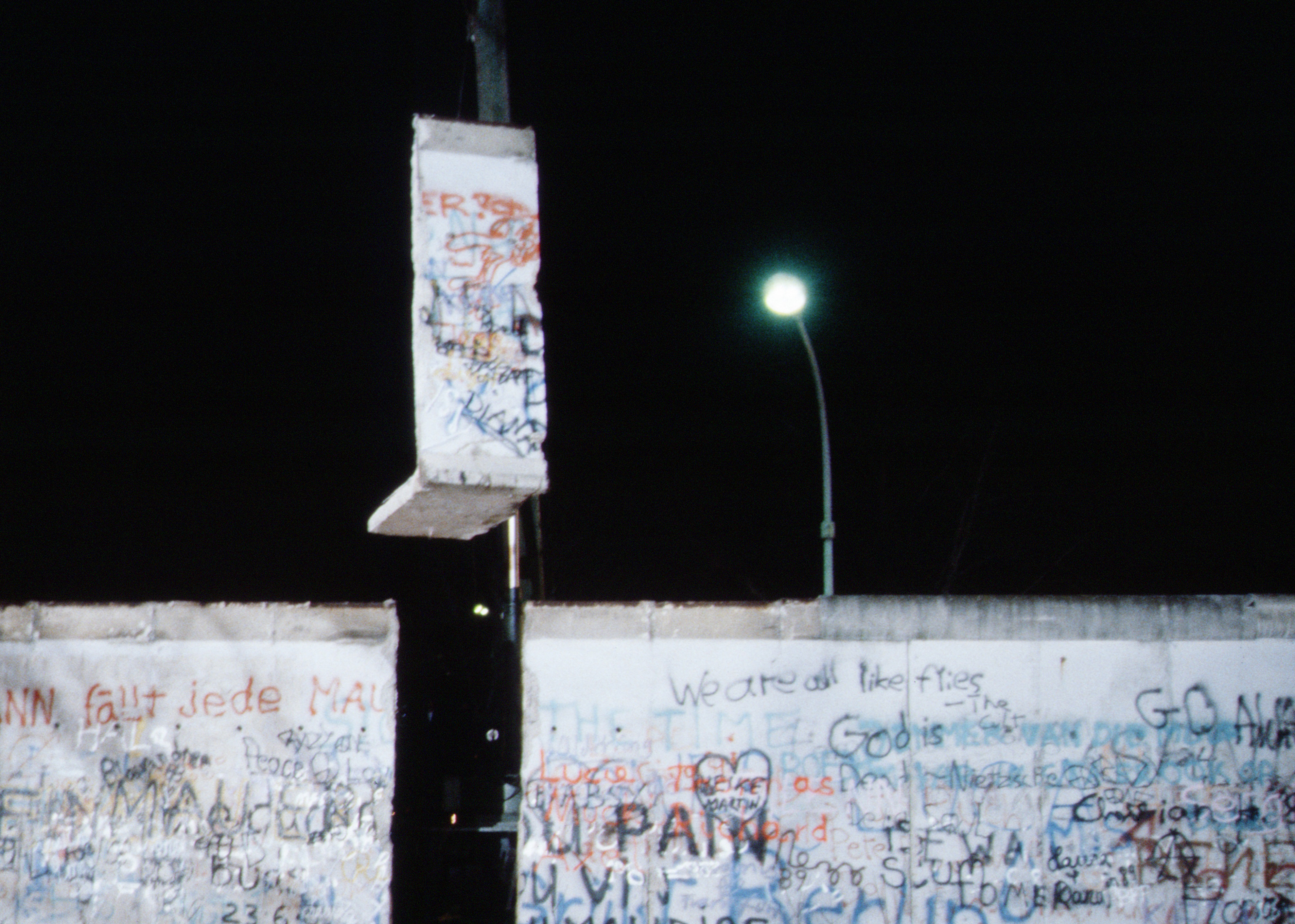 22/12/1989, 00:39, possibly near to the Brandenburg Gate